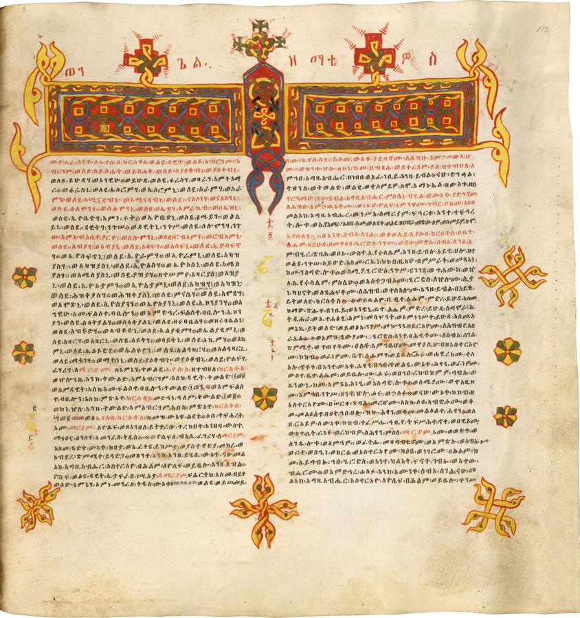 British Library Add. MS 59874 Ethiopian Bible - Matthew's Gospel (Ge'ez script)